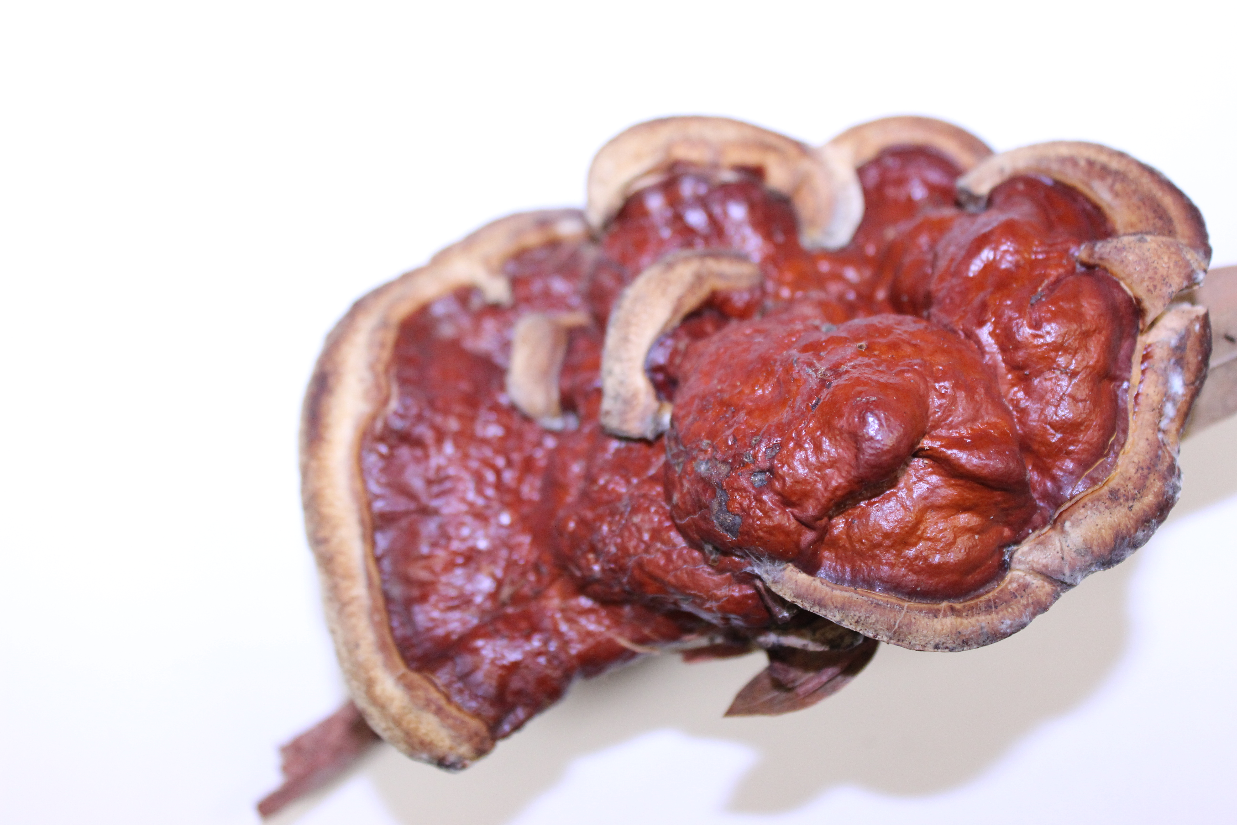 Collected in Florida from the base of a declining Quercus nigra